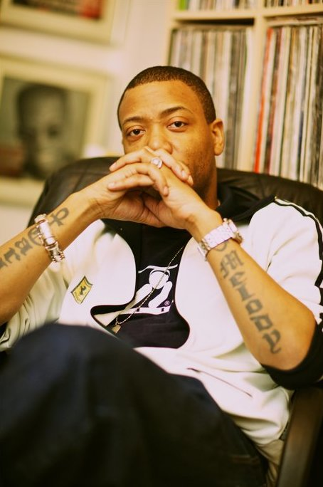 Herbie Crichlow, British songwriter and record producer living in Sweden.